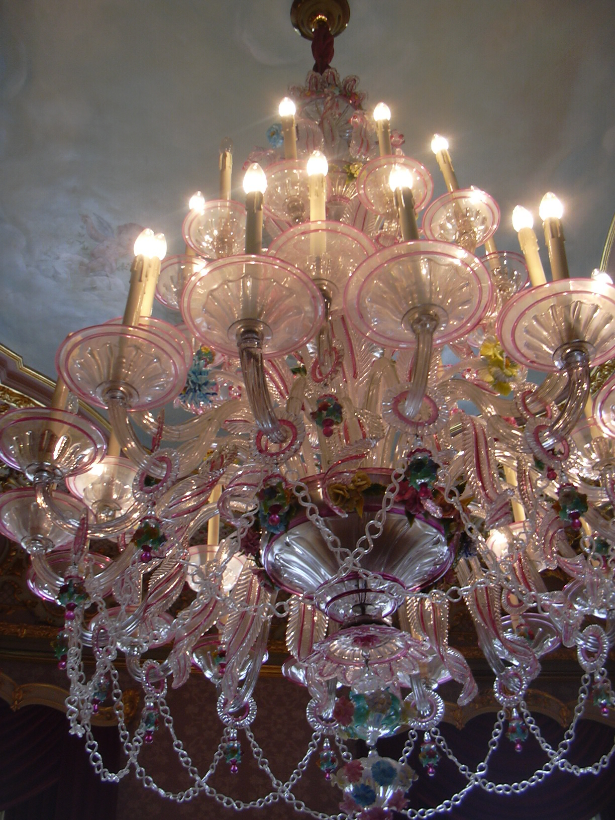 Philippsruhe Castle, Venetian candlestick, near Hanau, Hesse/Germany